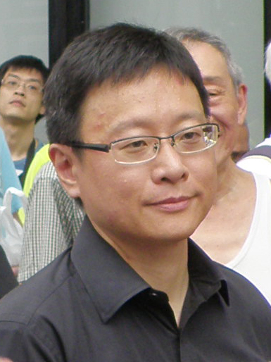 Kenneth Chan Ka-lok, member of the Hong Kong Legislative Council.